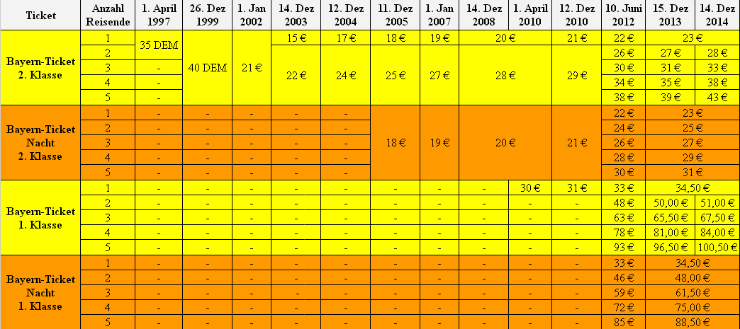 Price development of the Bayern-Tickets (Bavaria tickets) from Deutsche Bahn AG as a table. Table at Google Docs see here.